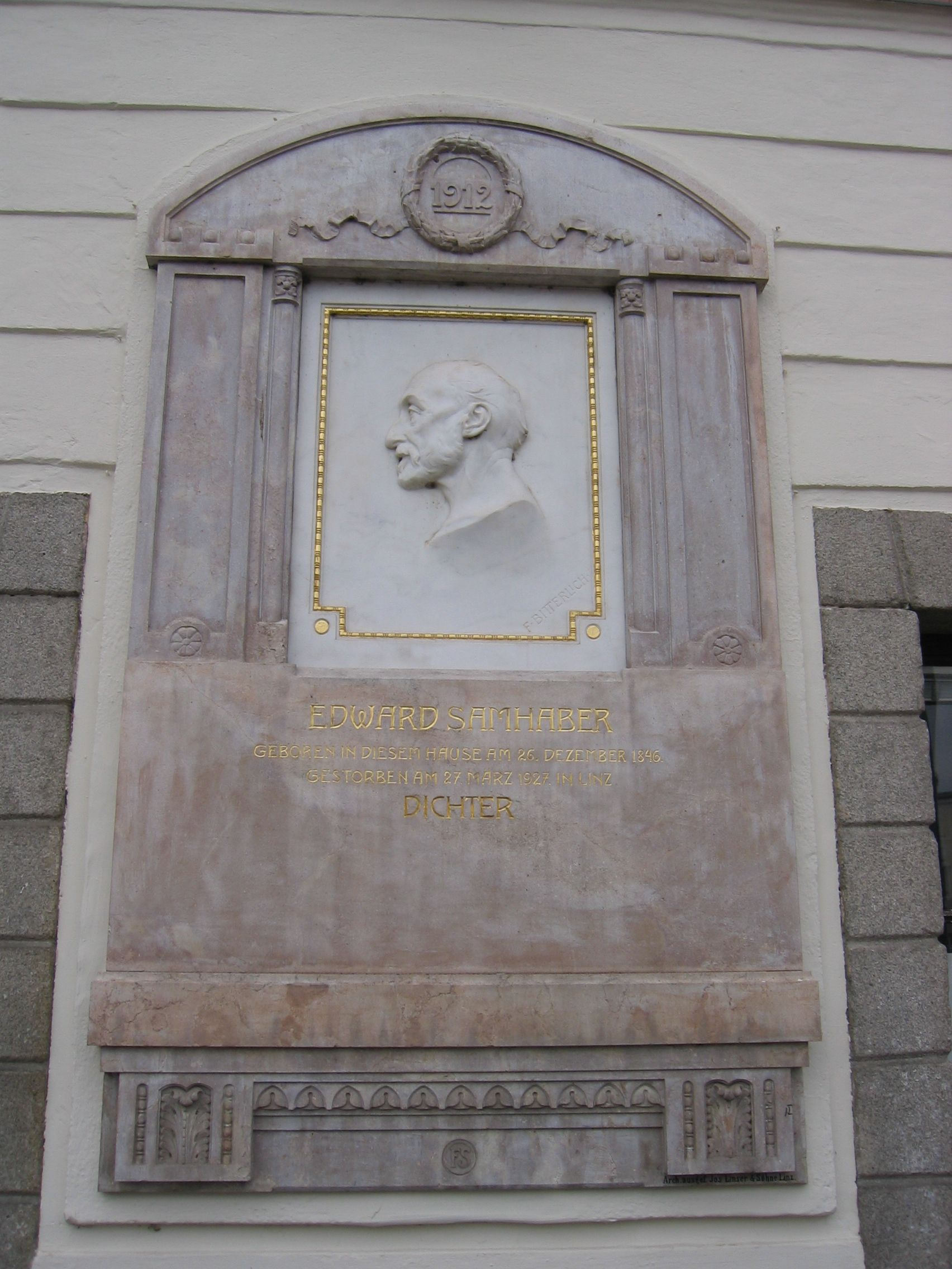 Monument for Edward Samhaber